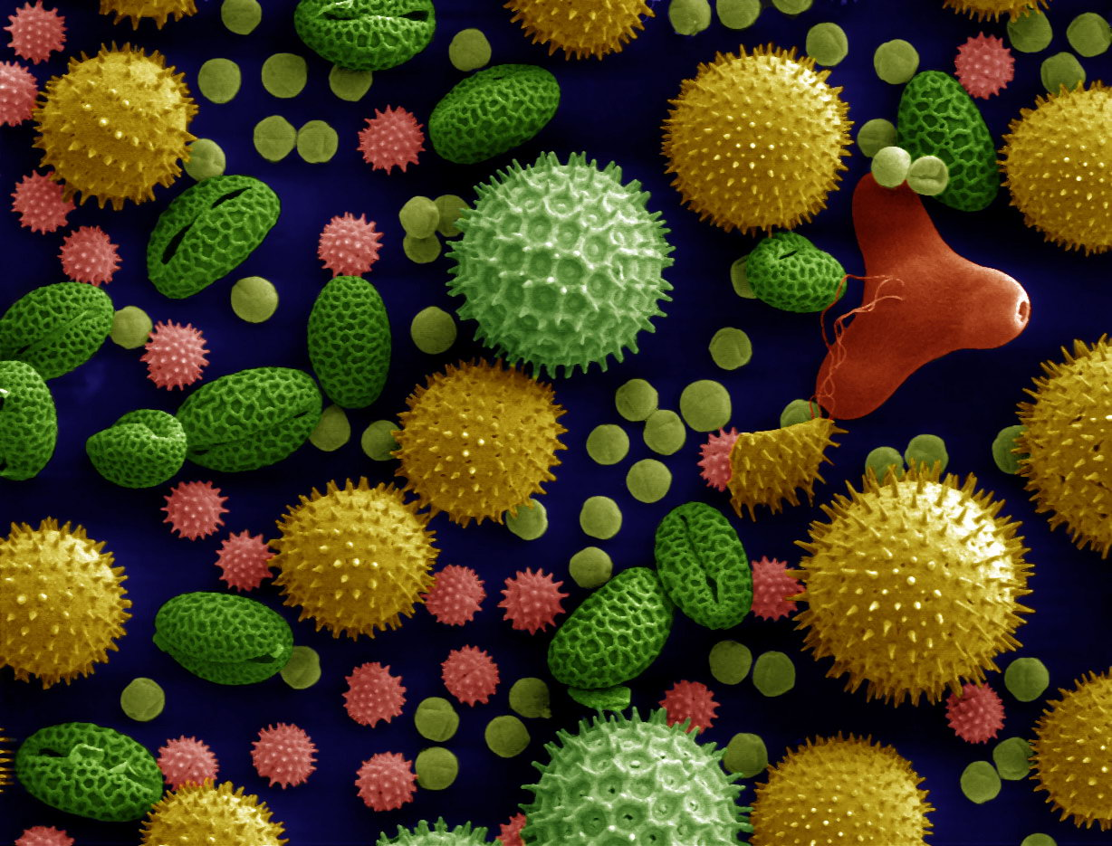 Pollen from a variety of common plants: sunflower (Helianthus annuus), morning glory Ipomoea purpurea, hollyhock (Sildalcea malviflora), lily (Lilium auratum), primrose (Oenothera fruticosa) and castor bean (Ricinus communis). The image is magnified some x500, so the bean shaped grain in the bottom left corner is about 50 μm long.